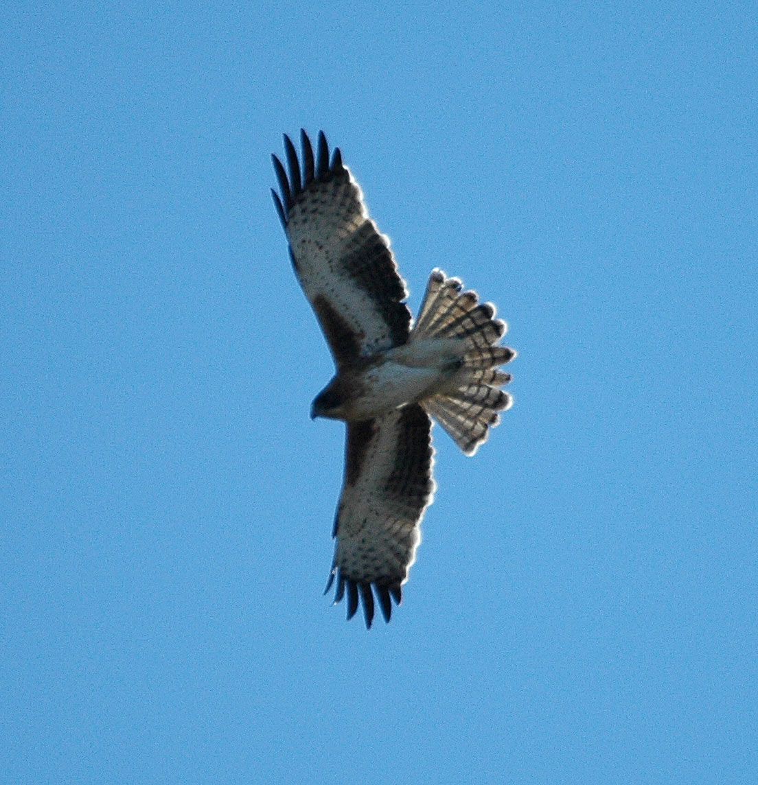 Little Eagle (Hieraaetus morphnoides, syn. Aquila morphnoides) in flight, Gore, S. Queensland, Australia